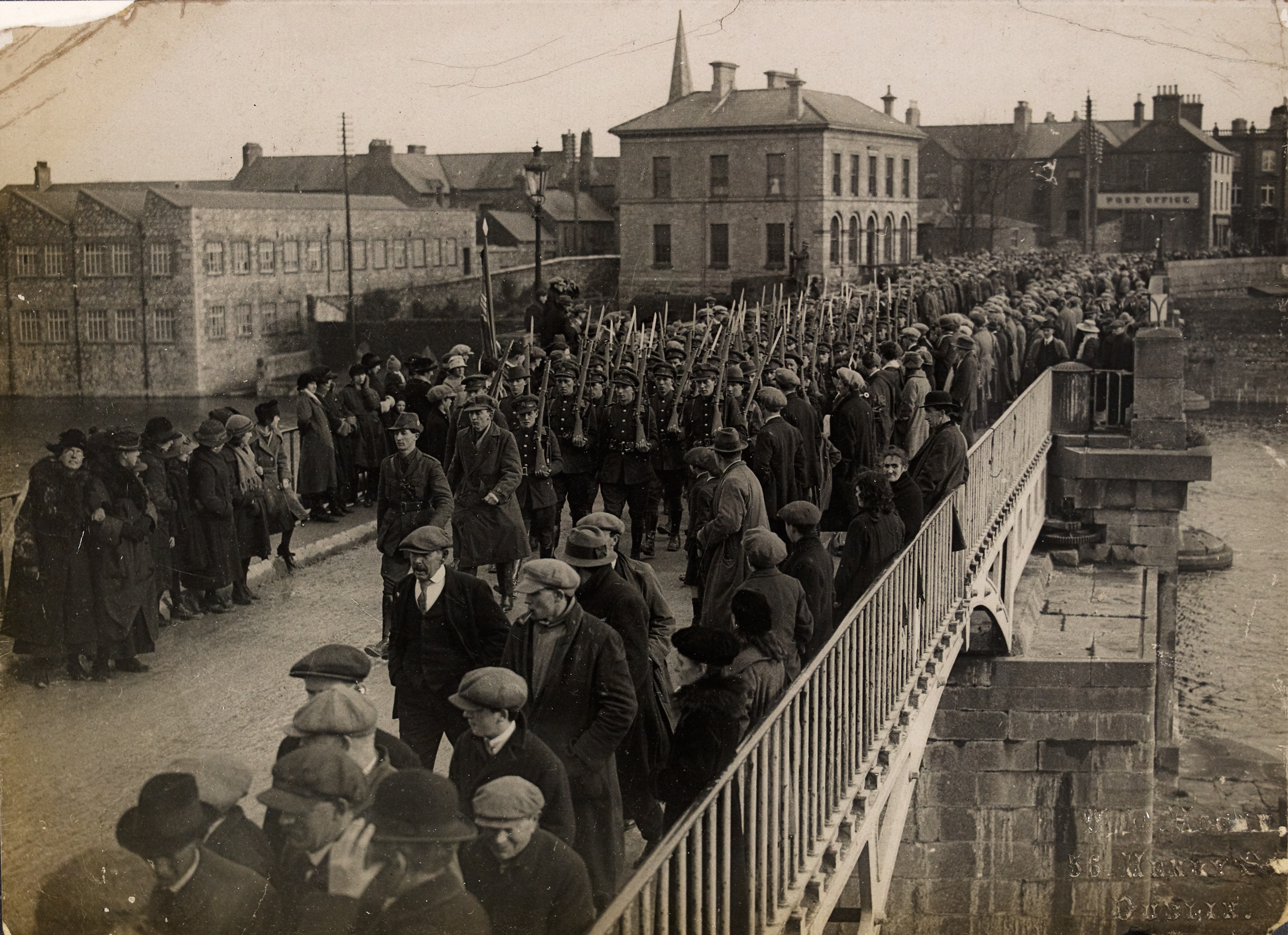 Very dramatic W.D. Hogan shot of soldiers marching across the bridge in Athlone for the handover of Custume Barracks - just one of the many barracks around the country to move from British to Irish control in 1922. Photographer: W.D. Hogan Date: Saturday, 25 February 1922 (according to our information) NLI Ref.: HOGW 54